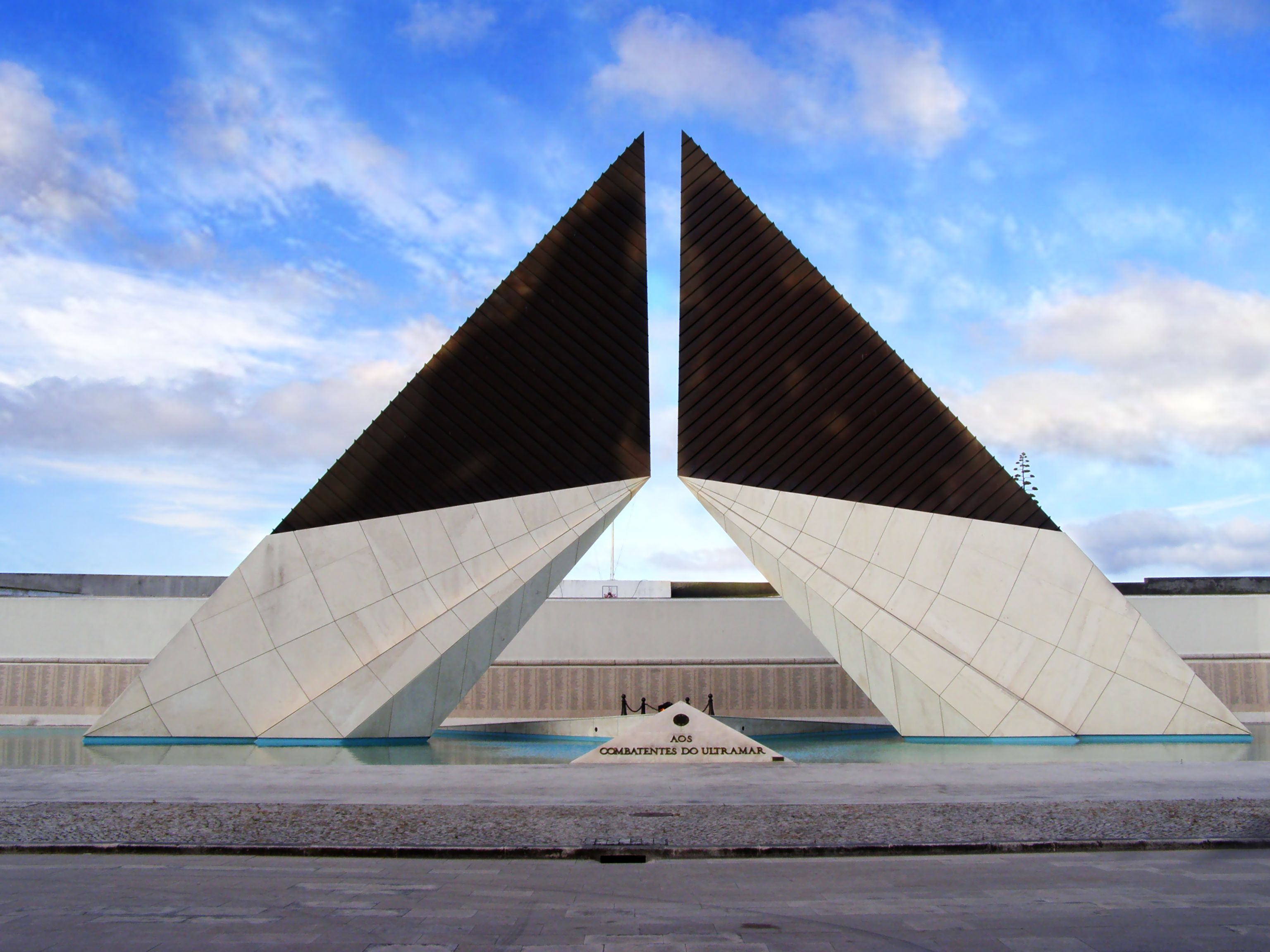 Memorial Monument of the overseas fallen soldiers; Lisbon, Portugal